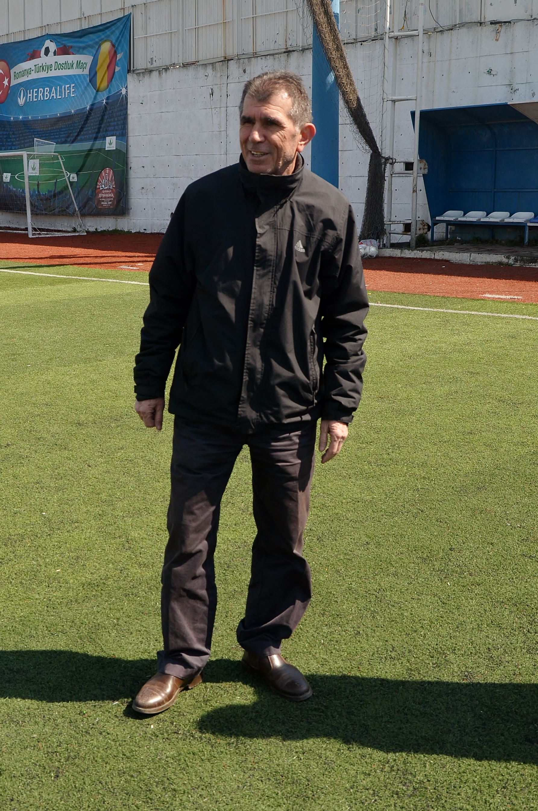 Bahtiyar Topal, manager of Ataşehir Belediyespor (2014-15 season)